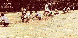 Indic Games Heritage